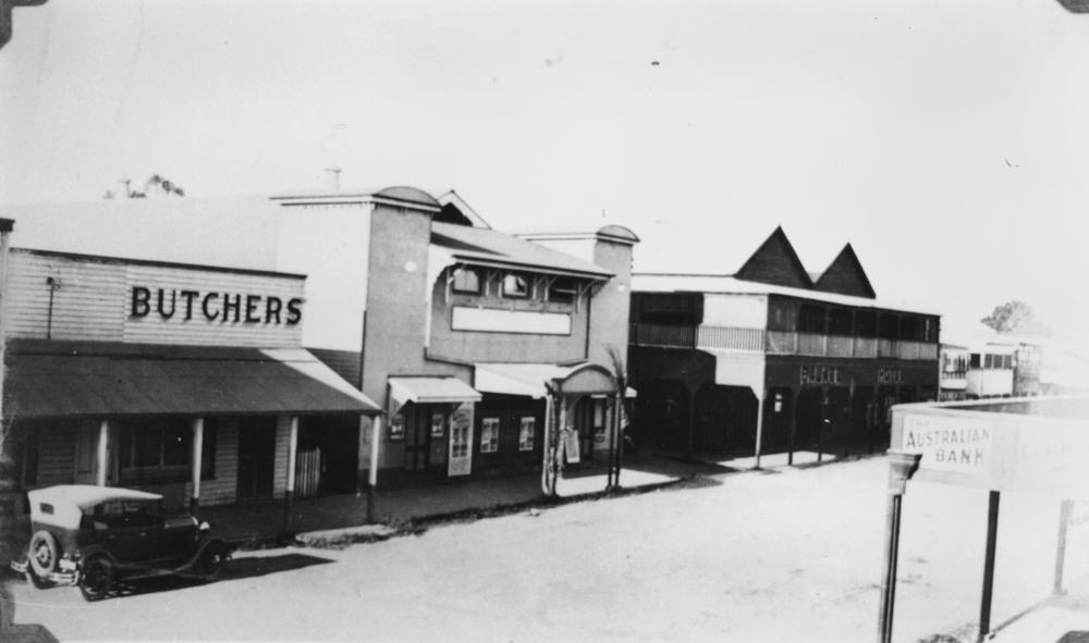 Businesses in Main Street, Proserpine in the 1930s. Shops include the butchers shop and the bank and the Palace Hotel.